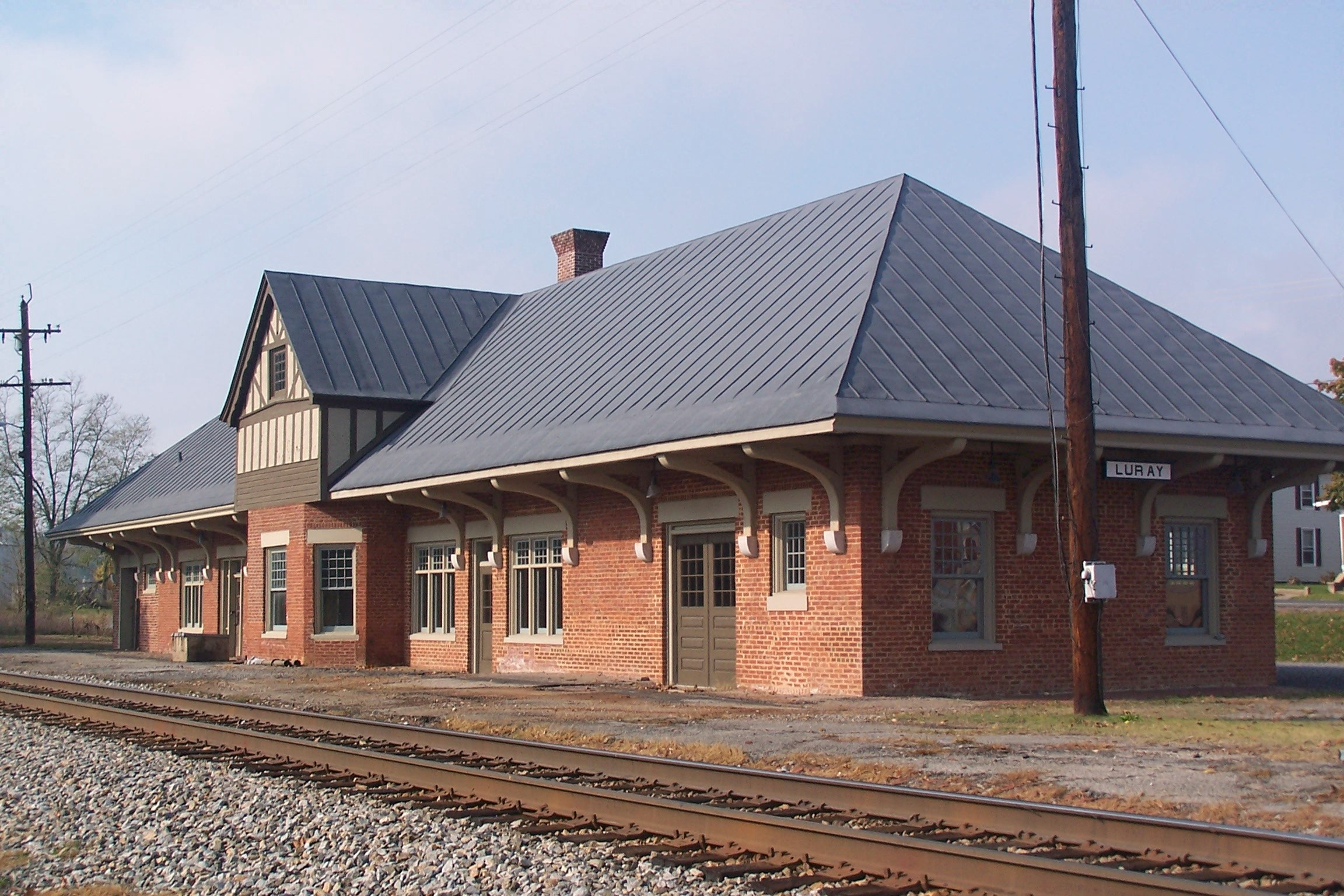 Here's another beautiful train station being restored. Luray is along the Norfolk Southern Railway in the Shenandoah Valley of Virginia.